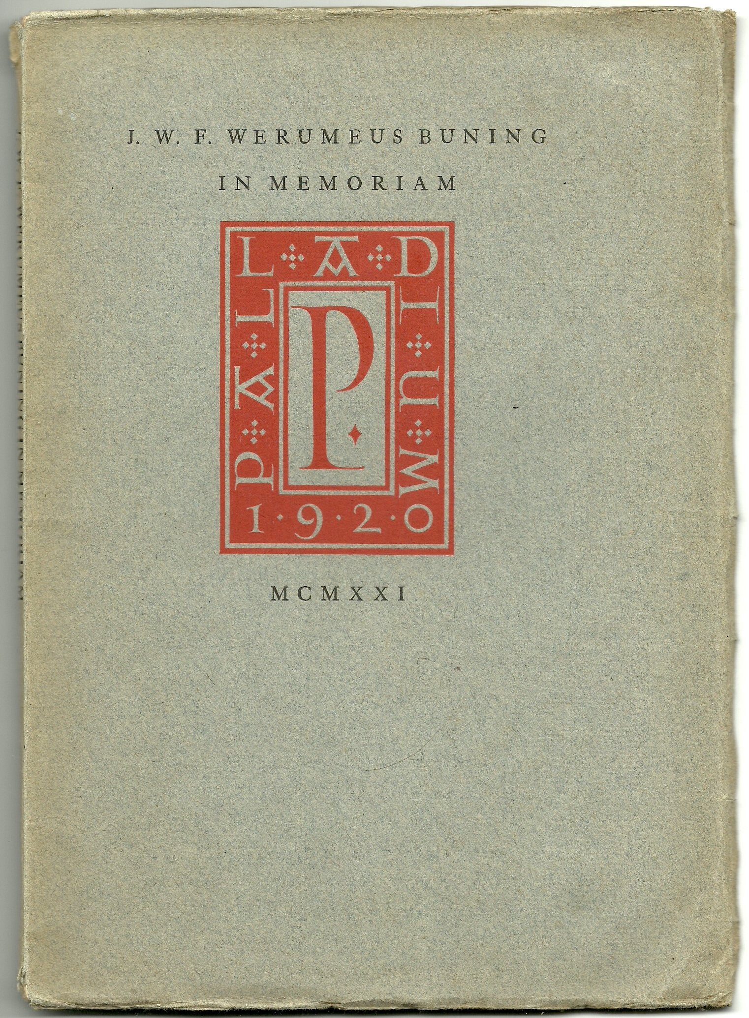 Cover poetry-bundle In Memoriam (1921) by J.W.F. Werumeus Buning, Palladium-series (1920-1927) Jan van Krimpen